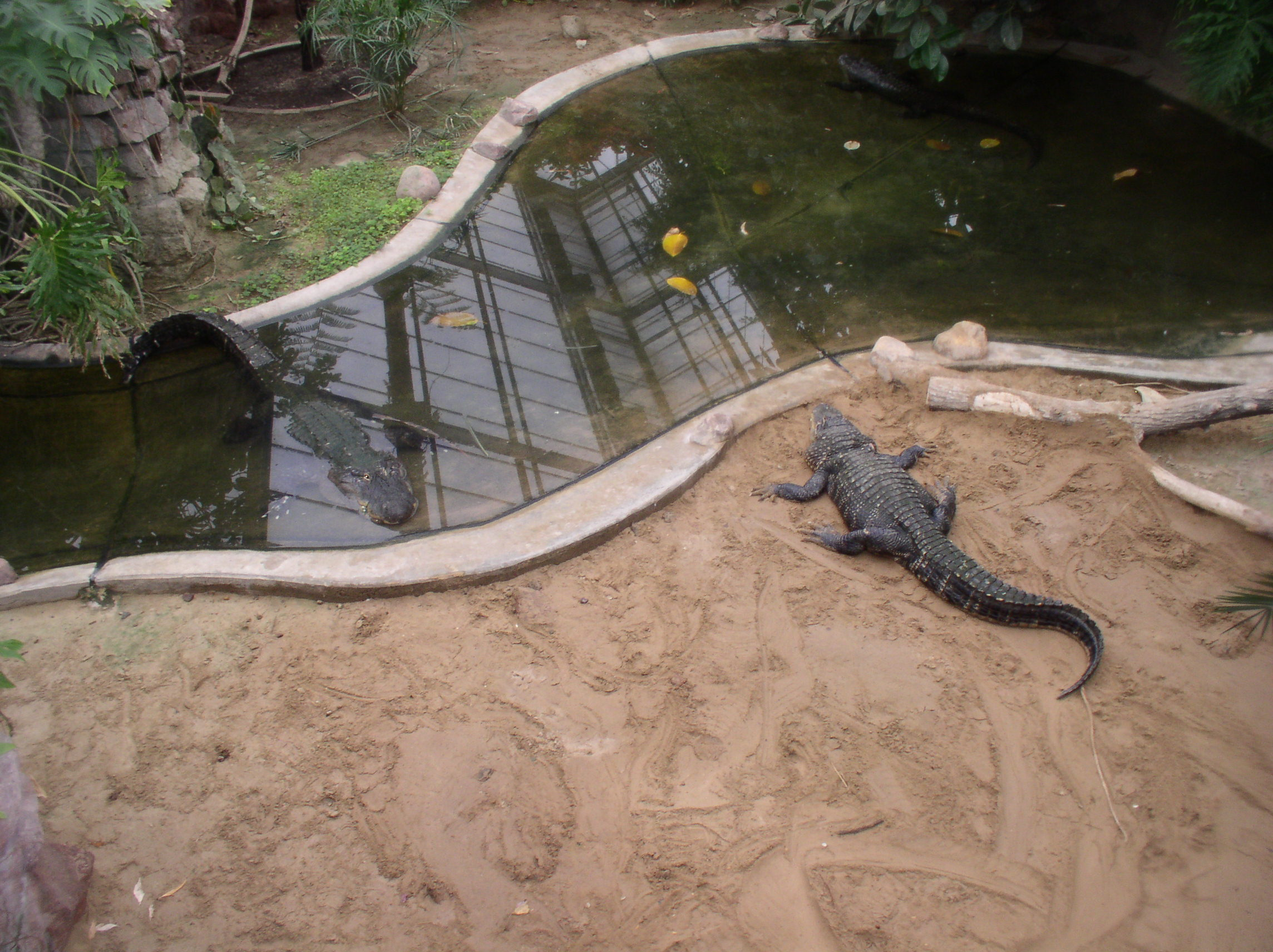 American Alligator (Alligator mississipiensis), taken at the Tierpark Berlin, Germany